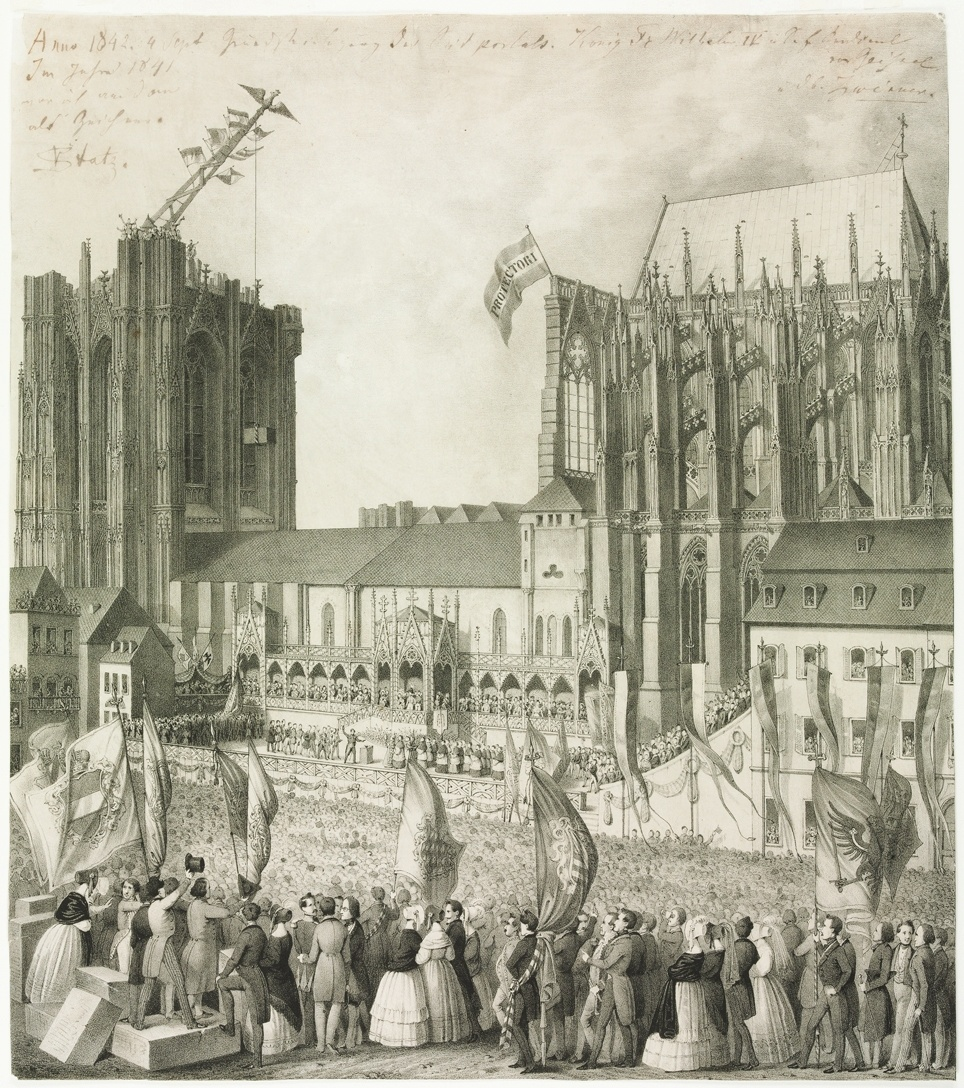 Georg Osterwald, Cologne Cathedral on September 4th, 1842, cornerstone ceremony for the restart of construction work